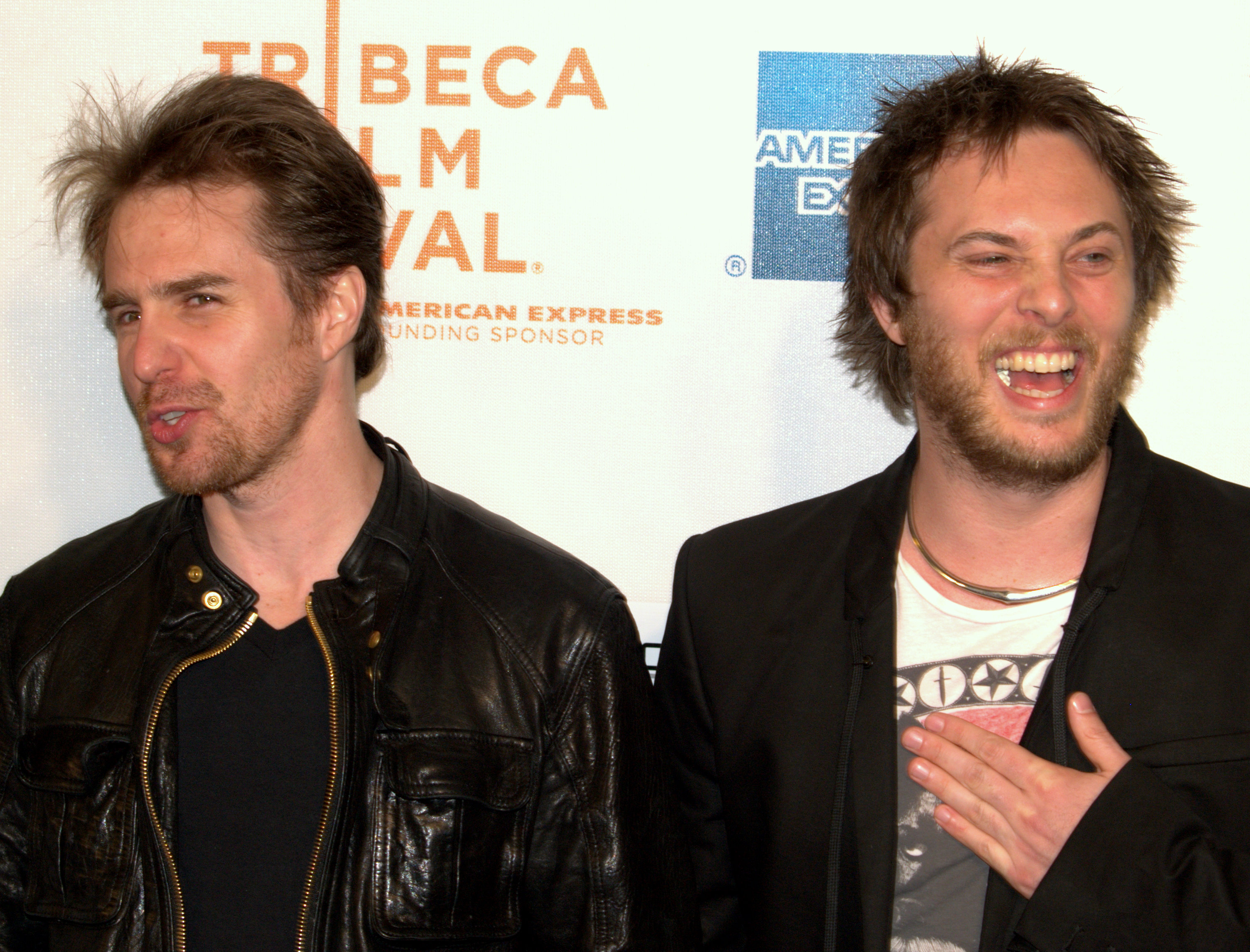 Sam Rockwell and Duncan Jones at the 2009 Tribeca Film Festival for the screening of Jones's directorial debut film Moon. Photographer's blog post about this event.